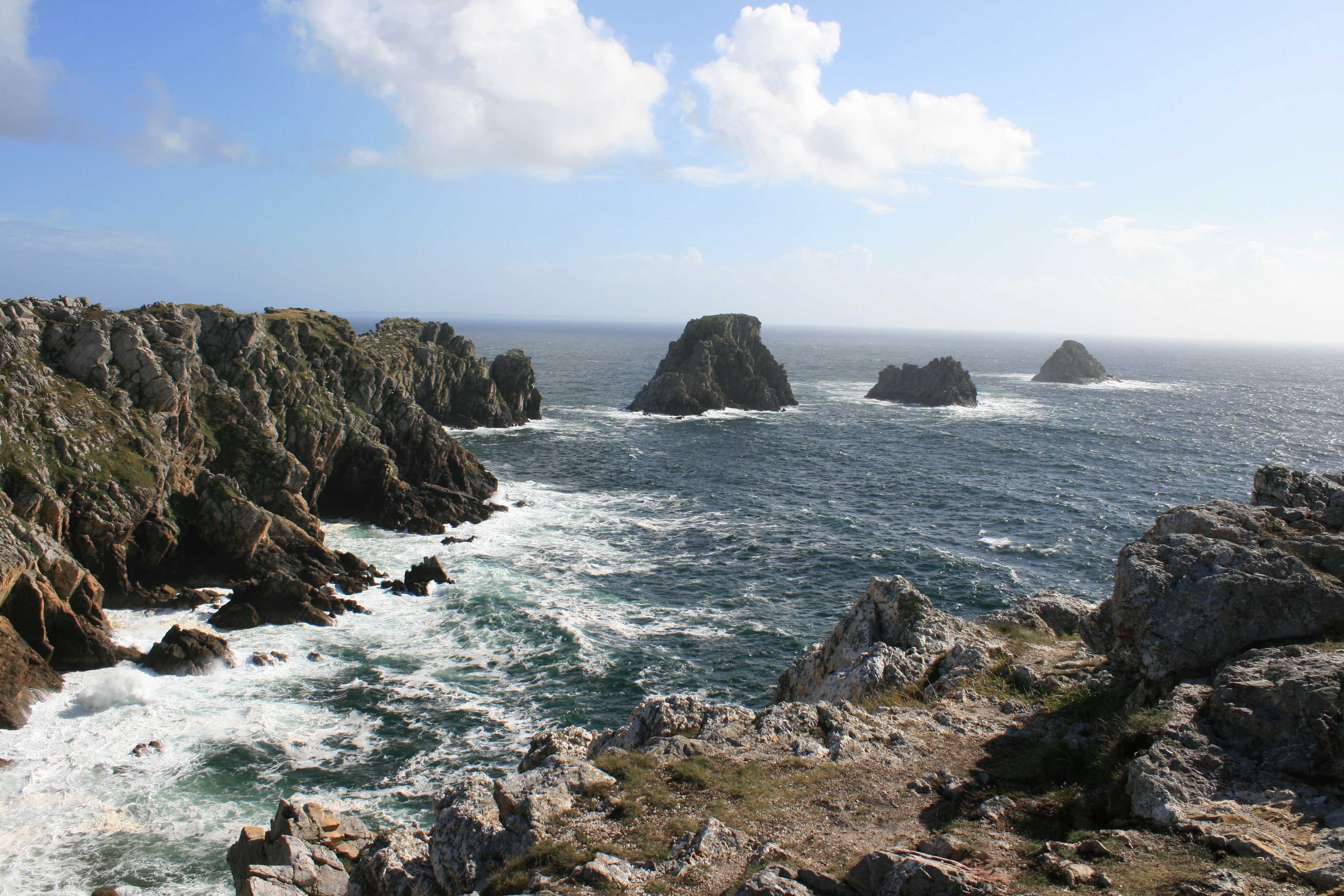 The Tas de Pois (pile of peas) from the Pointe de Penhir at Camaret-sur-Mer